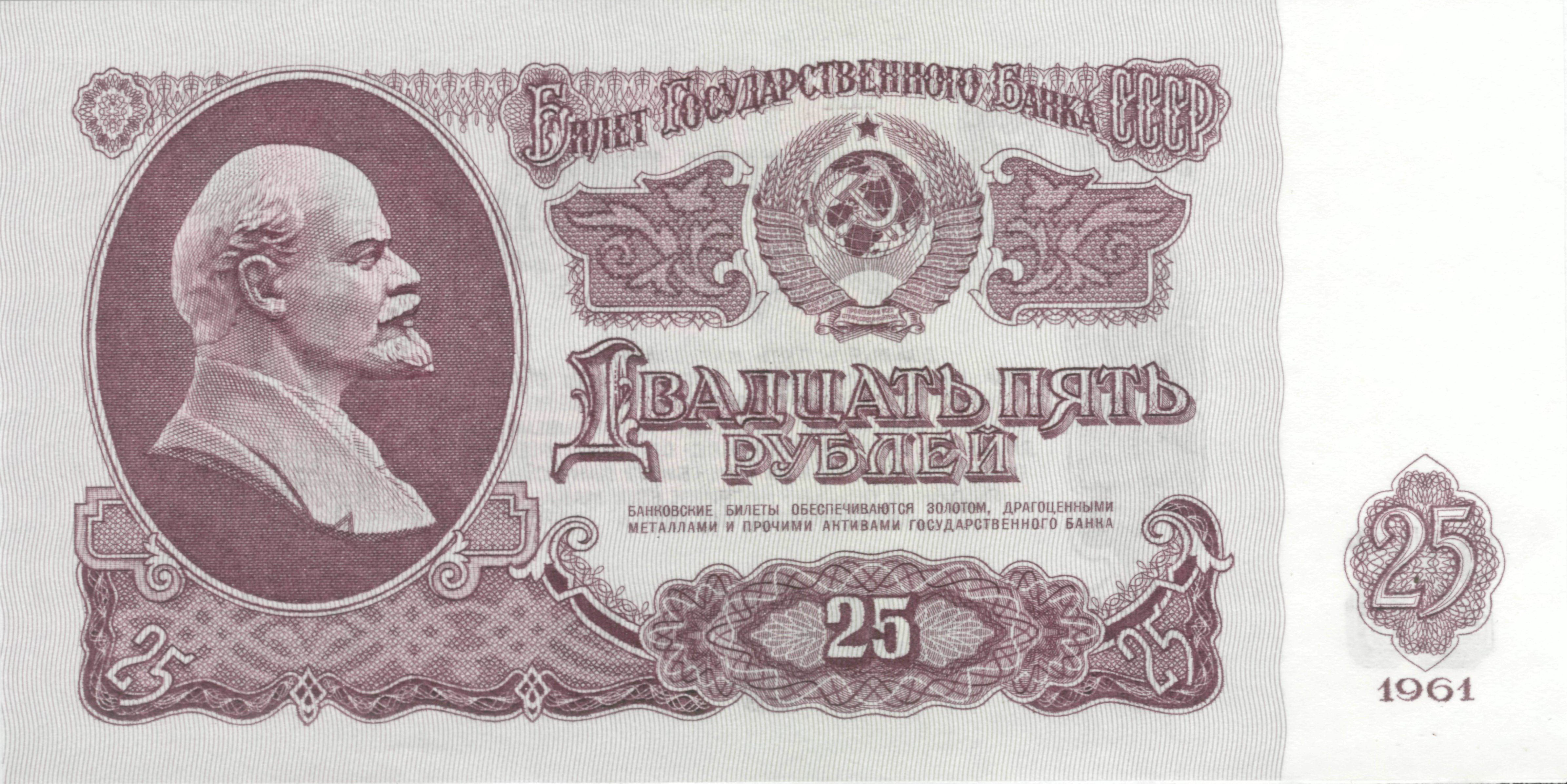 1961 Soviet Union 25 (четвертак) rubles bill obverse. Цвета естественные. See also other side Image:Soviet Union-1961-Bill-25-Reverse.jpg